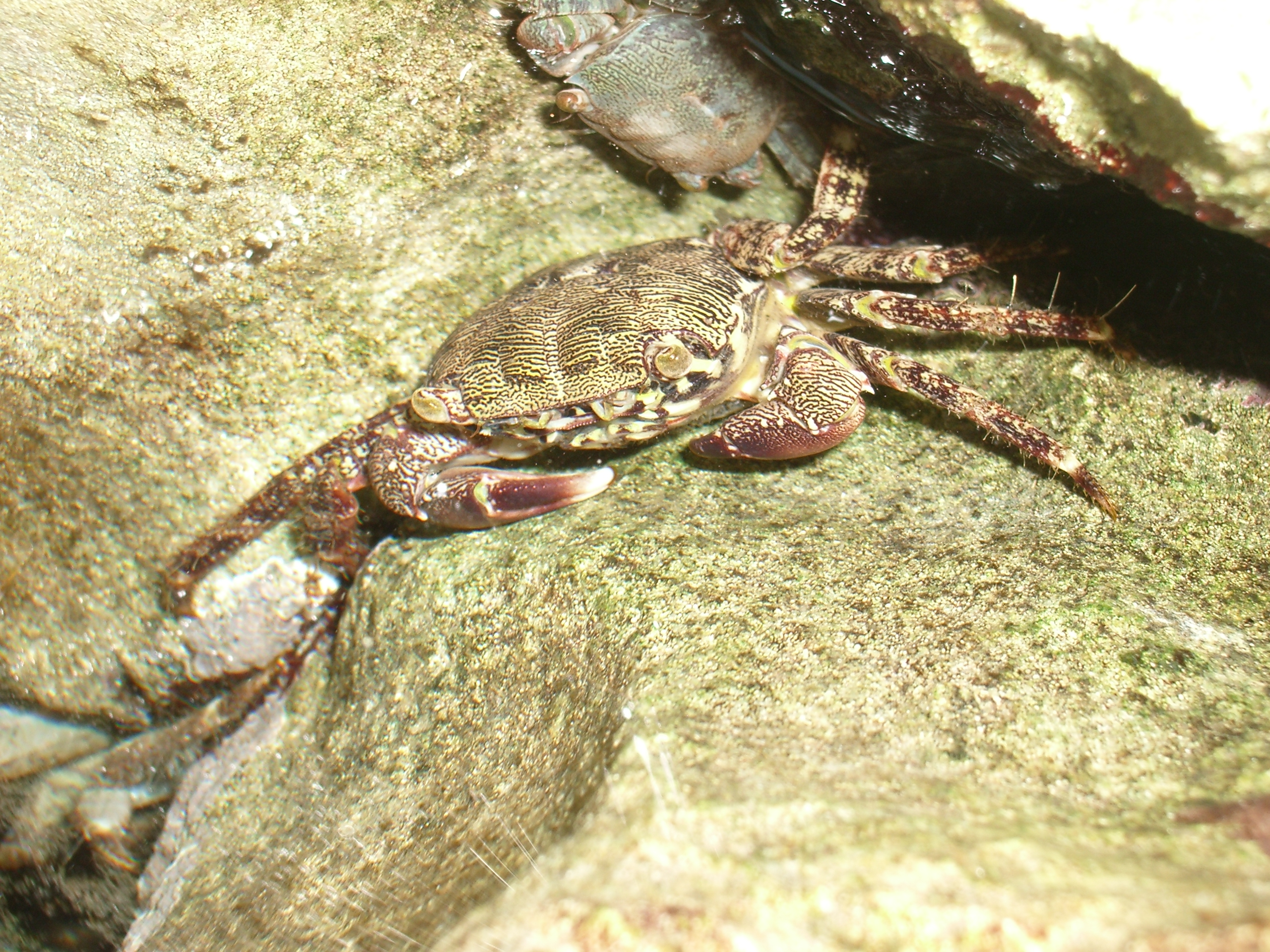 Pachygrapsus marmoratus in the spanish mediterranean coast